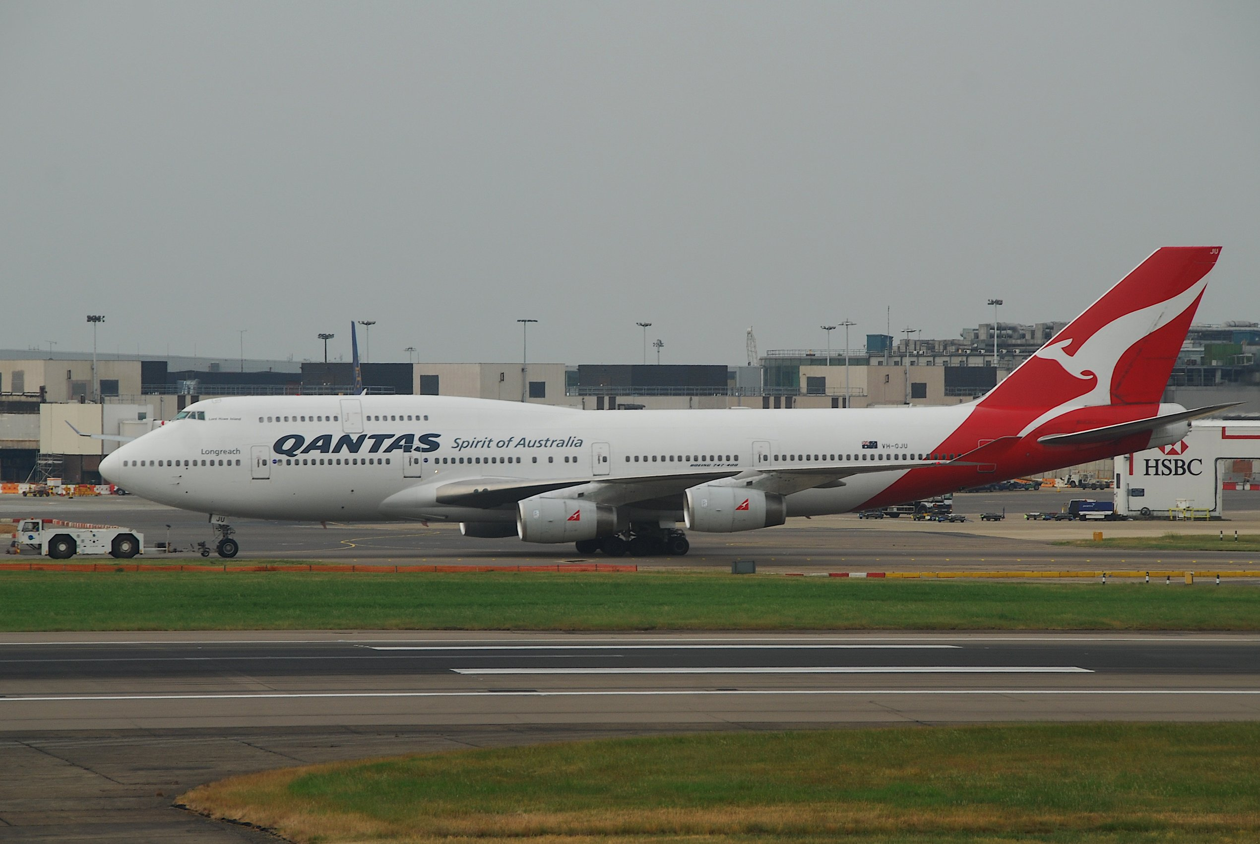 The new, only slightly modified QF-colours...